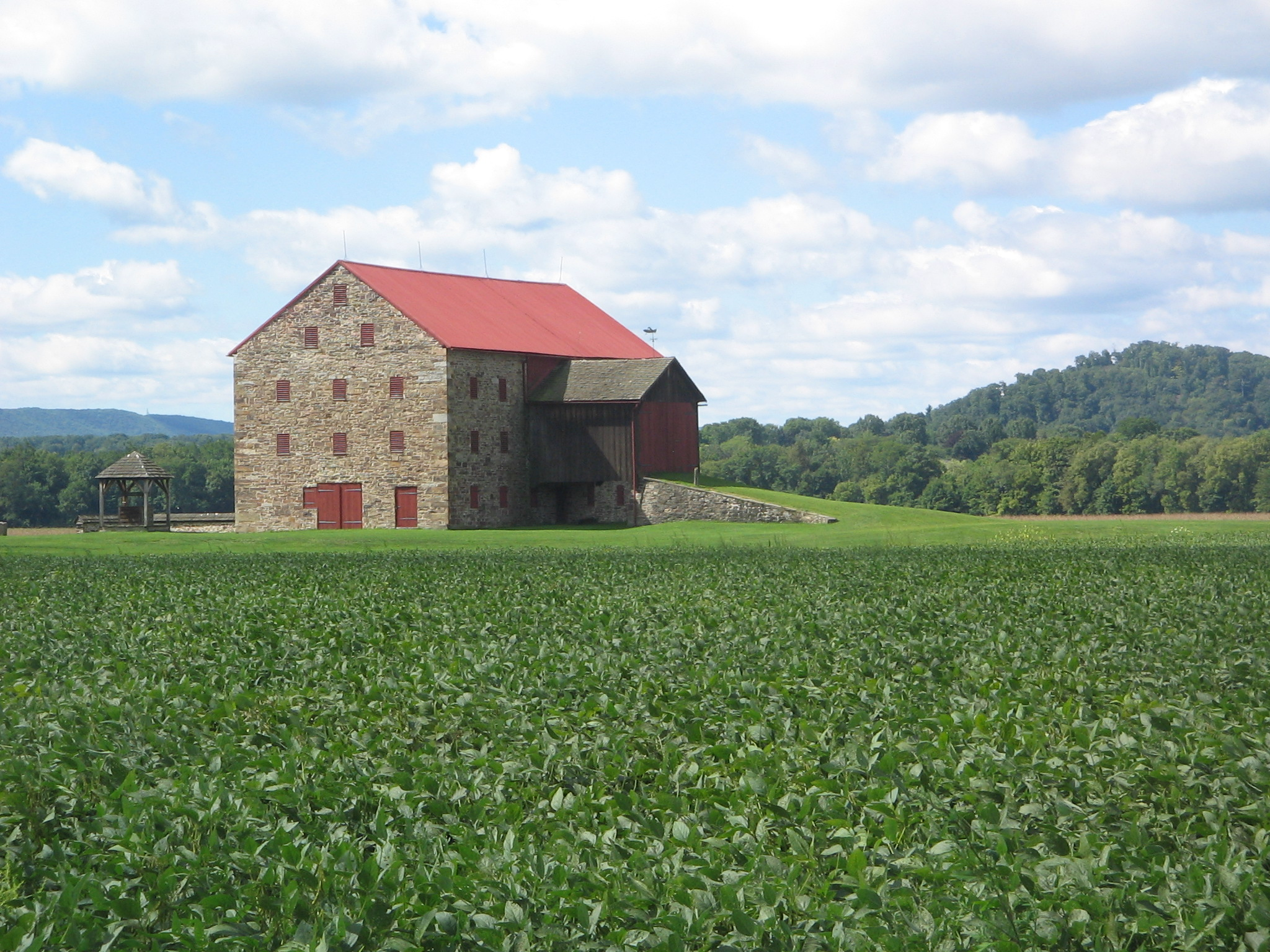 Old stone barn in Fairfield Township, Lycoming County, Pennsylvania, United States. Taken from Pennsylvania Route 87, left hand side is south (Bald Eagle Mountain visible).